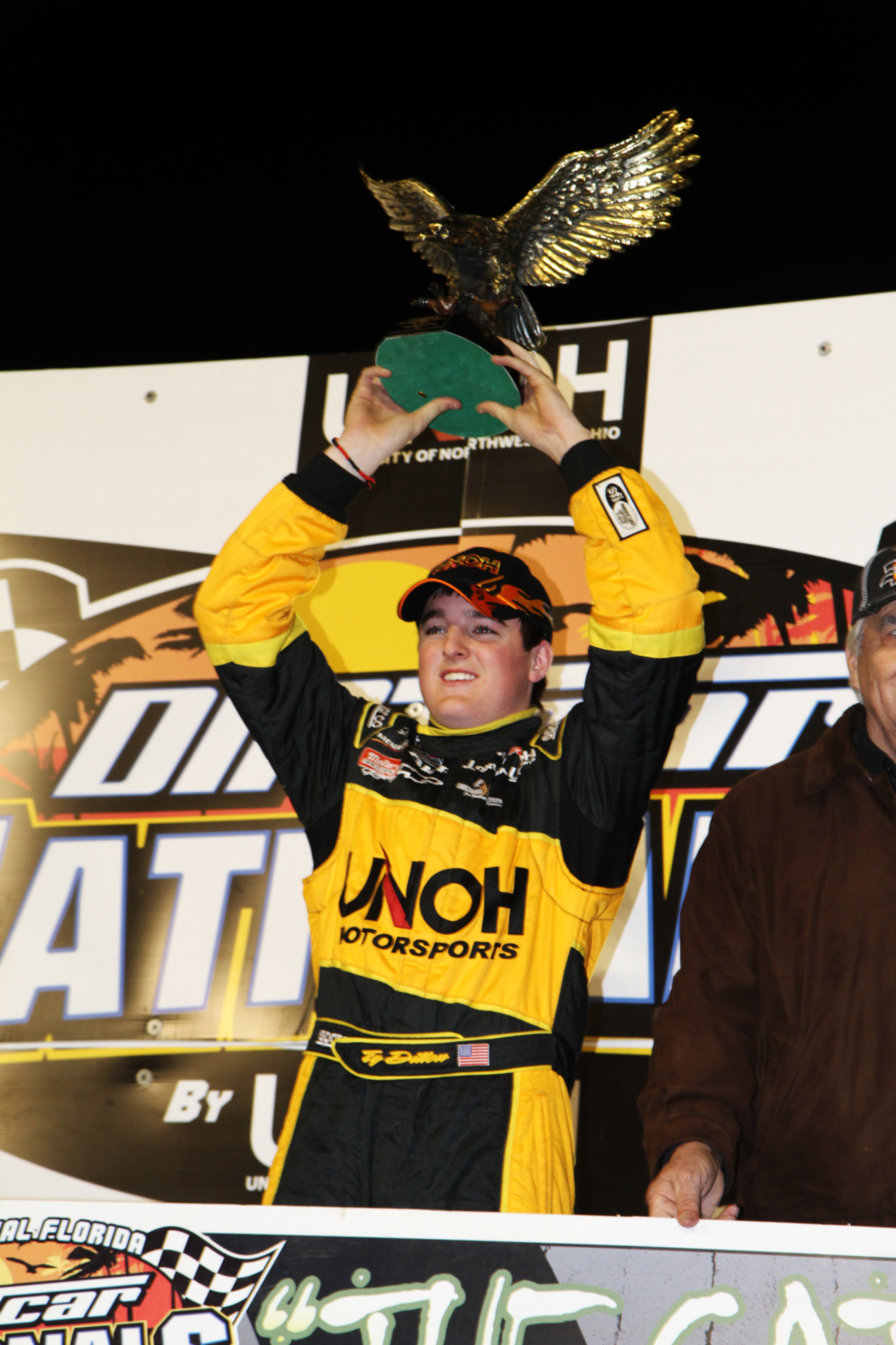 Ty Dillon holding the winning trophy from the 2011 Dirtcar Nationals at Volusia Speedway park